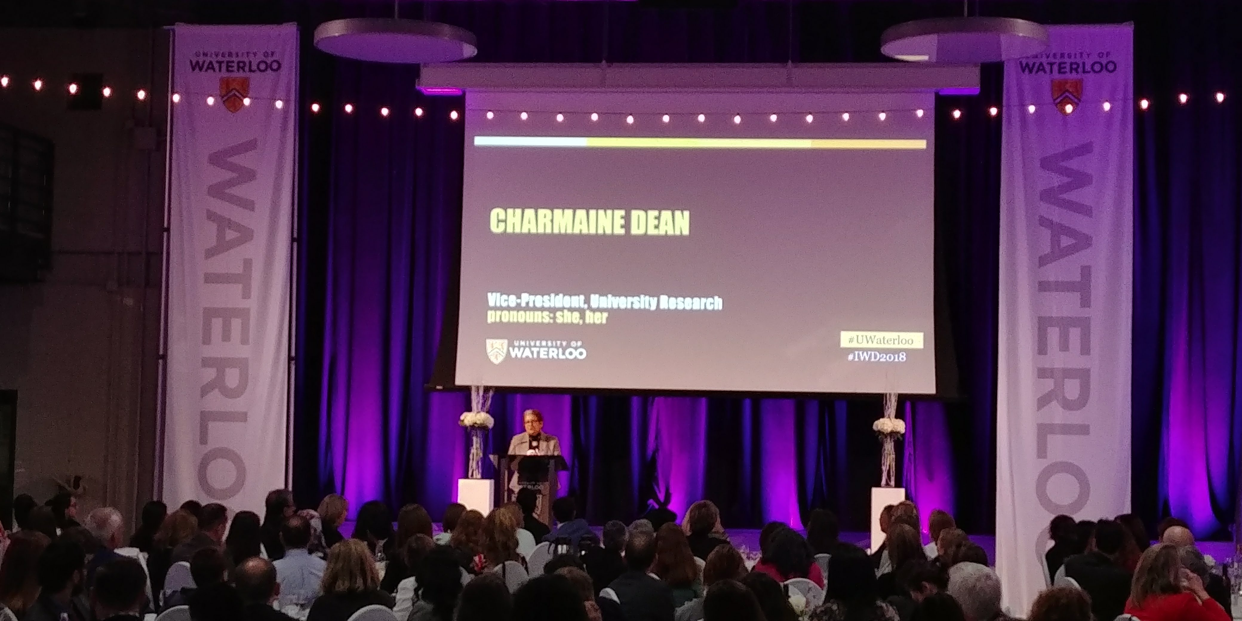 Charmaine Dean speaking during keynote address at University of Waterloo's International Women's Day dinner.